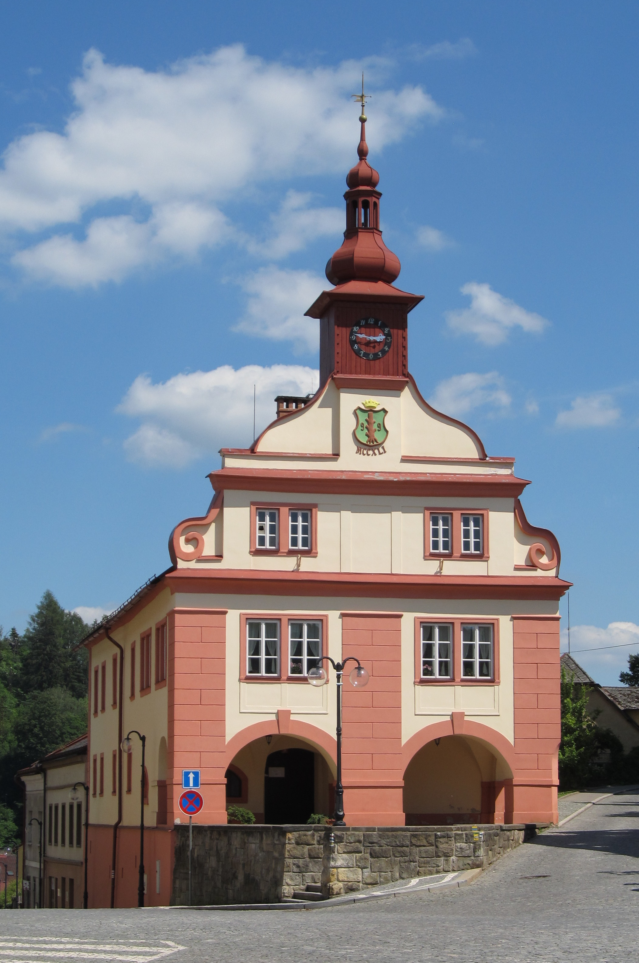 Old town hall, nowadays the Town Museum and Gallery in the town of Úpice, Trutnov District, Czech Republic